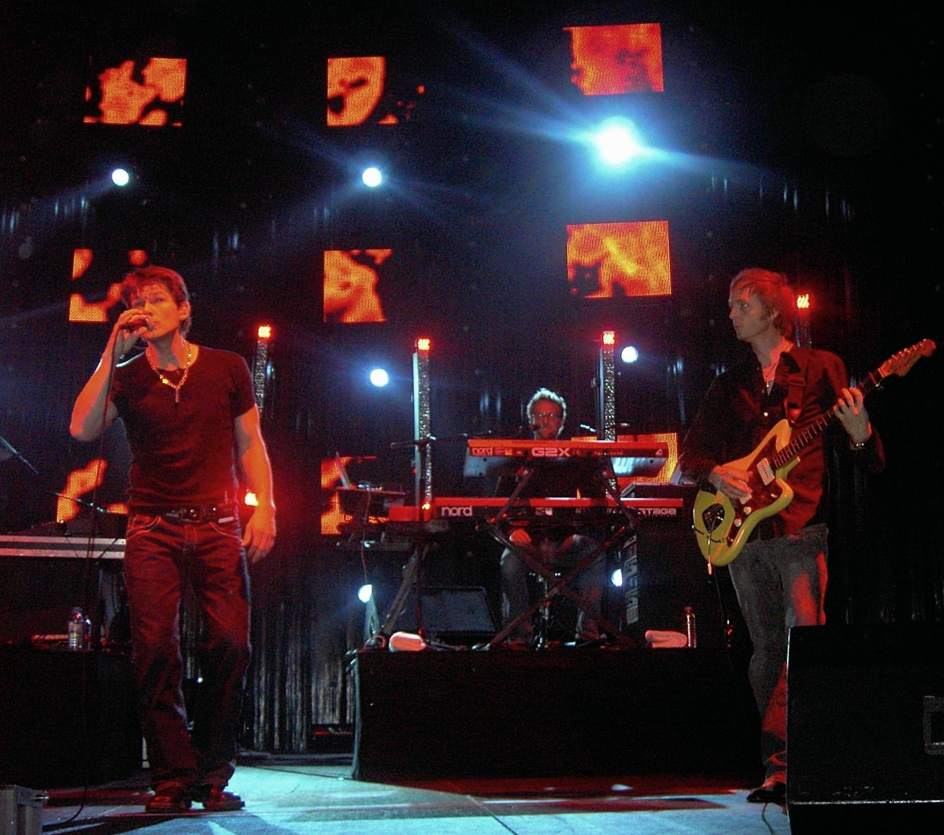 a-ha live at Cologne, 29th Oct. 2005